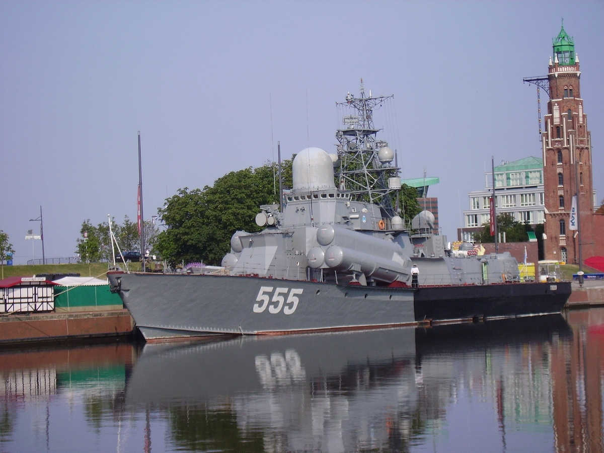 The Russian corvette "Geyzer" (#555) of the Nanuchka III-class during a visit to Bremerhaven, Germany, in July 2006